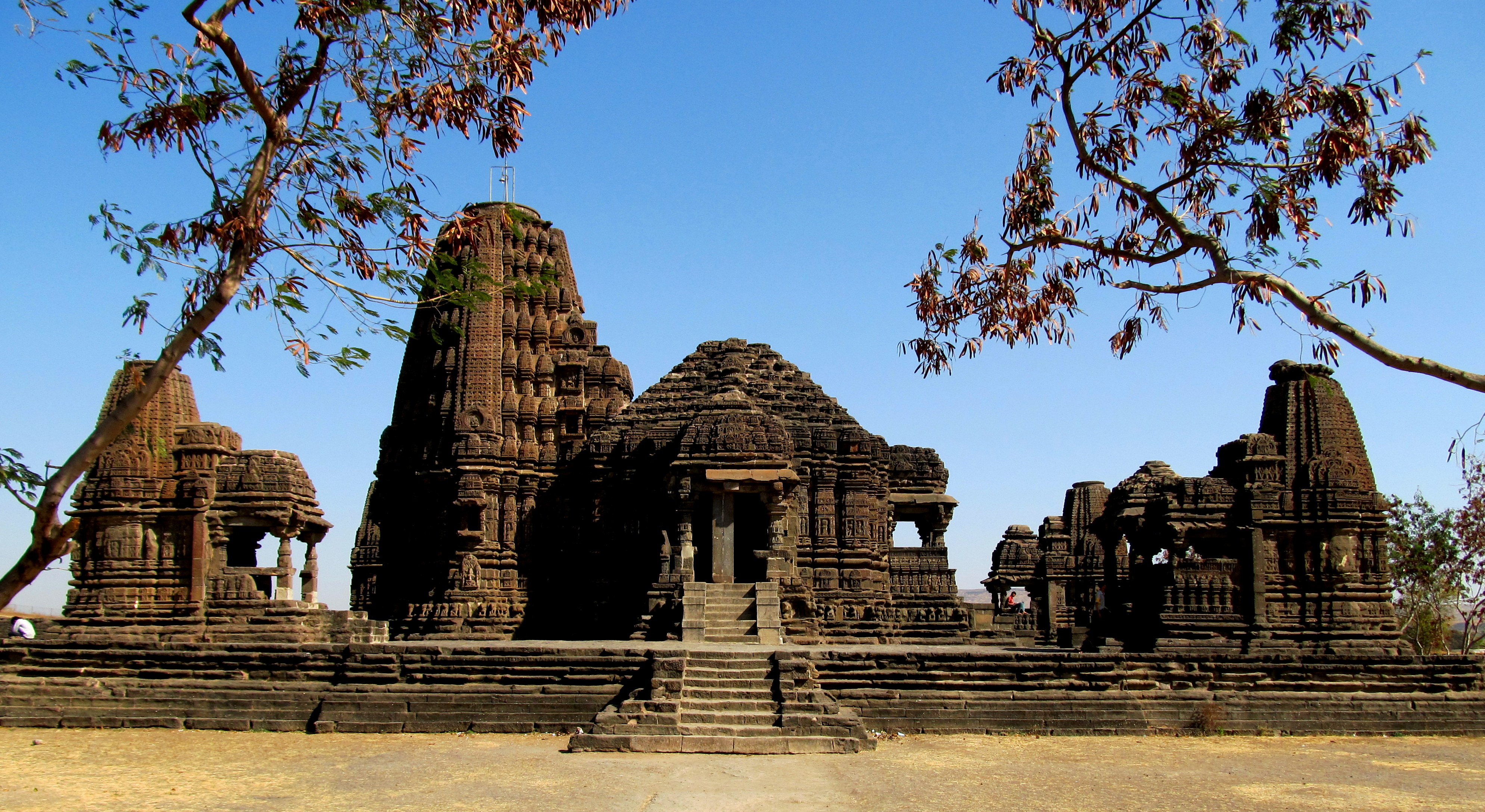 This is an old temple at Sinnar near Nasik, Maharashtra, India...not 'built' but 'carved' in a single stone in the era of Govinddevrai Yadava.